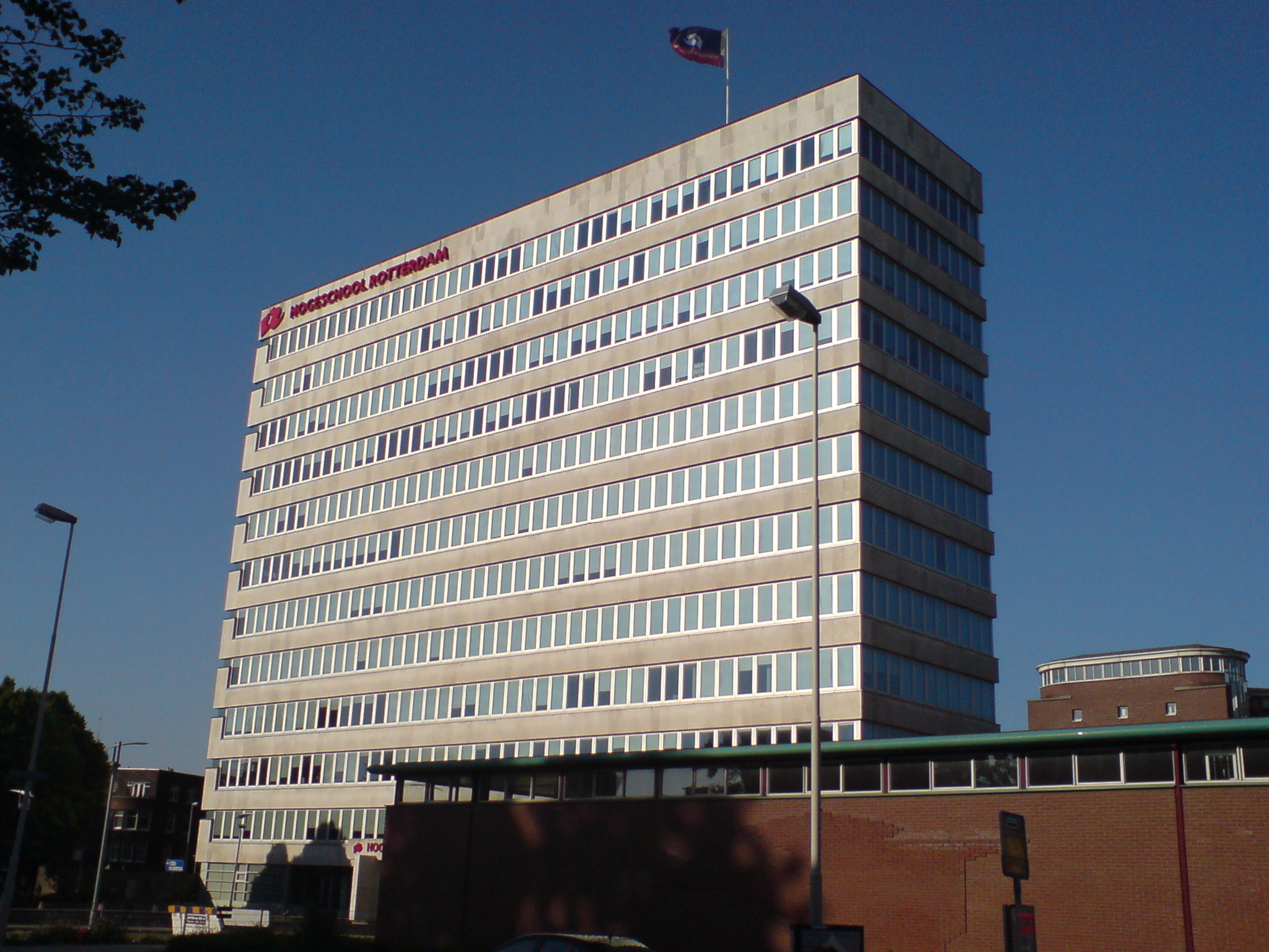 hoofdlocatie/main location Hogeschool Rotterdam - Museumpark, Rotterdam